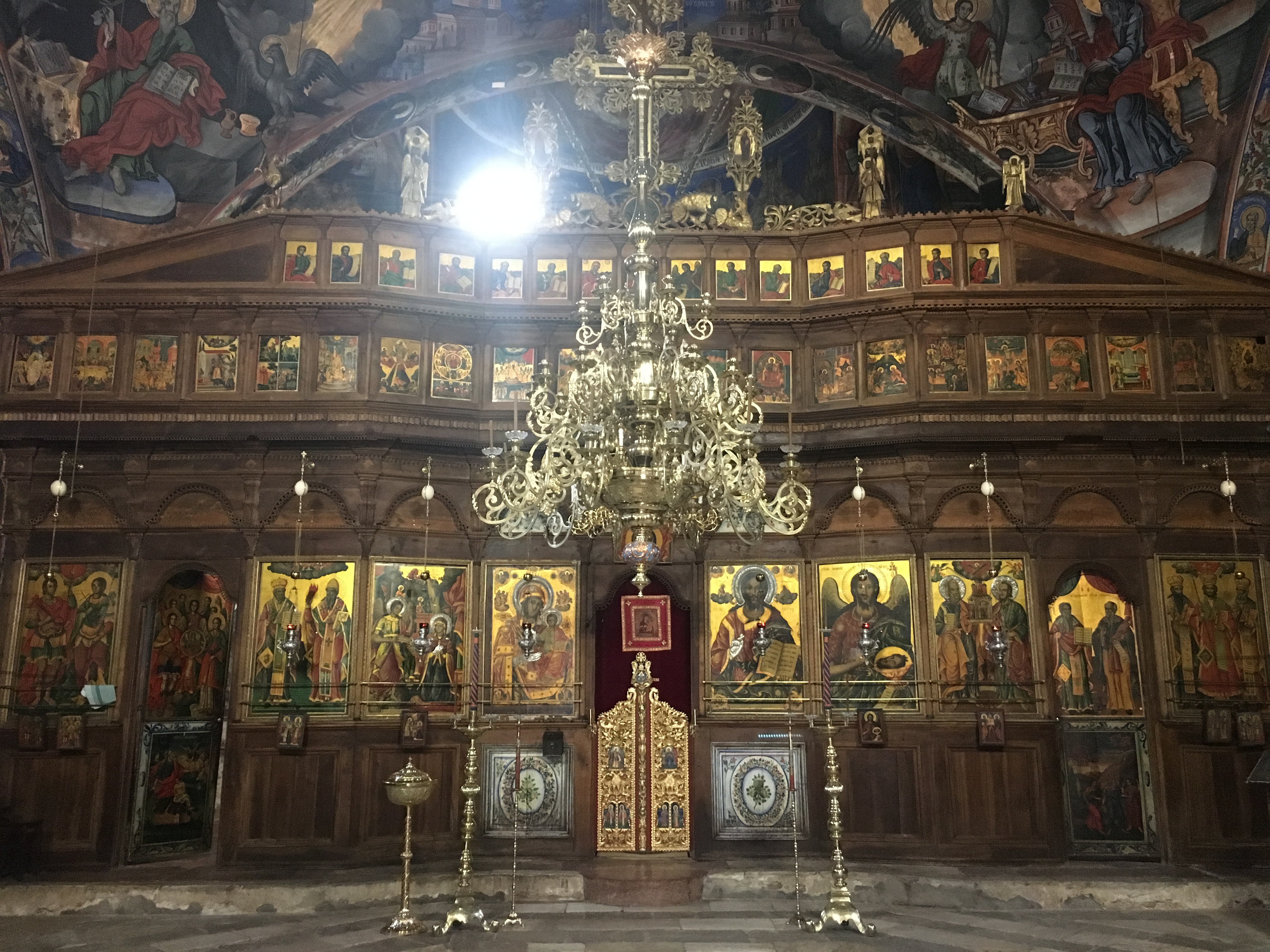 Wikiexpedition to Kopačka